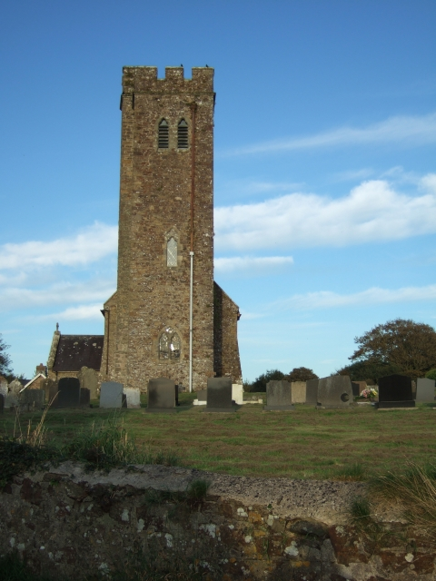 Walwyn's Castle church